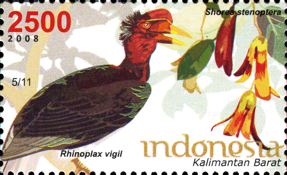 Stamps of Indonesia